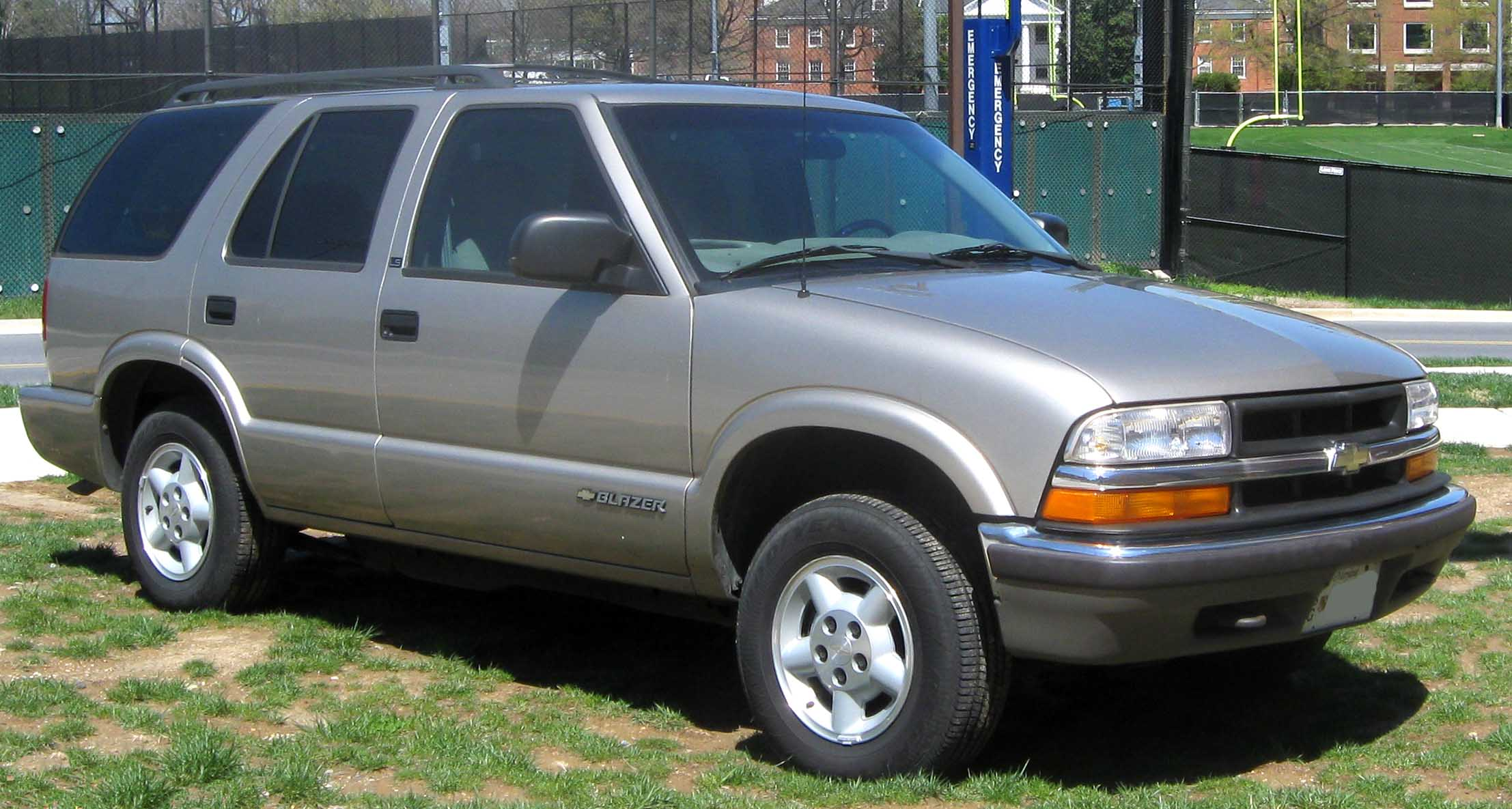 1998-2005 Chevrolet S-10 Blazer photographed in College Park, Maryland, USA.